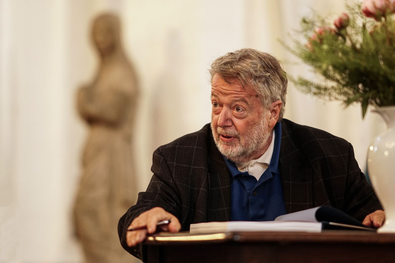 Peter Brandes i Aarhus 2020